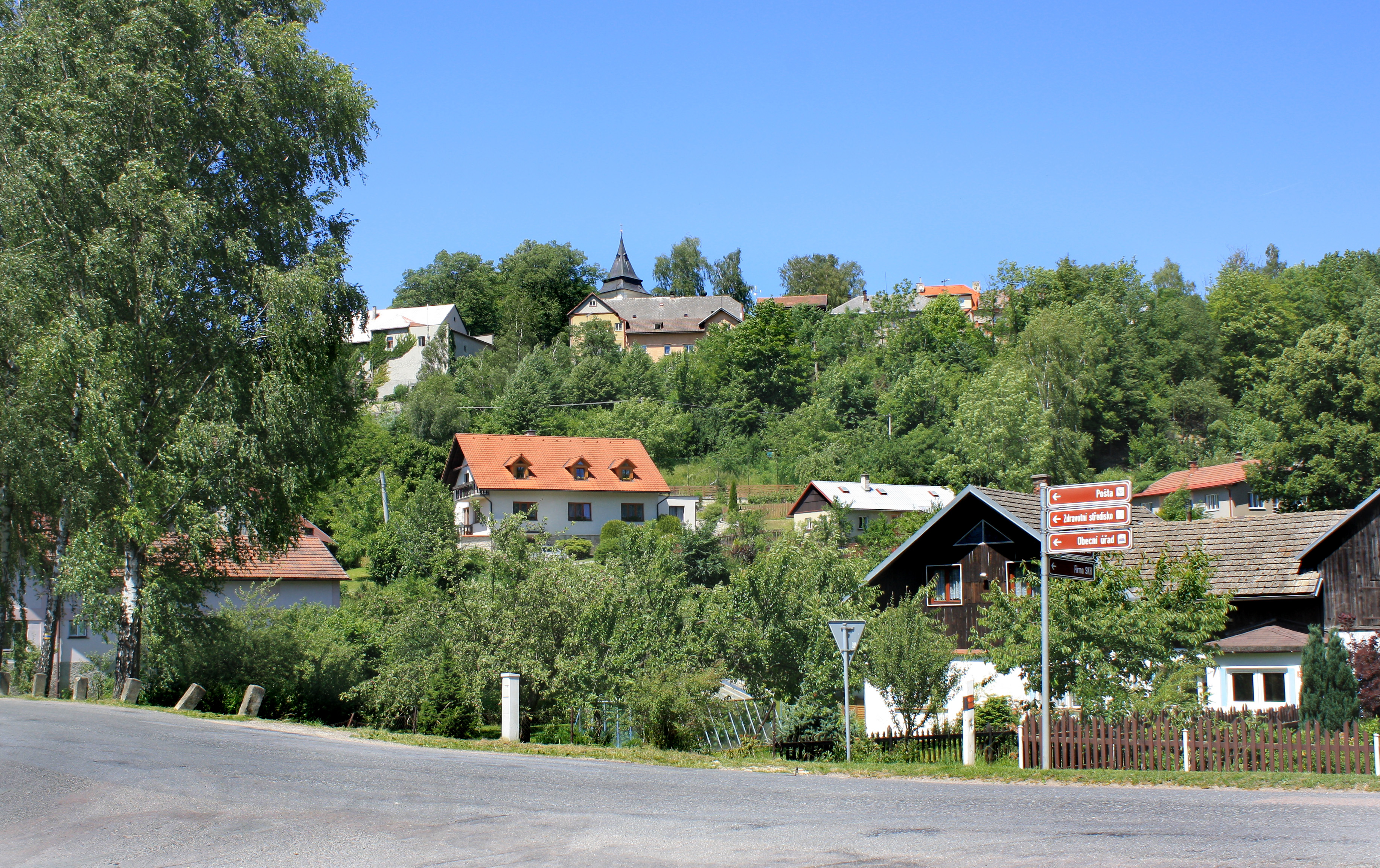 Lower and upper part of Sebranice, Czech Republic